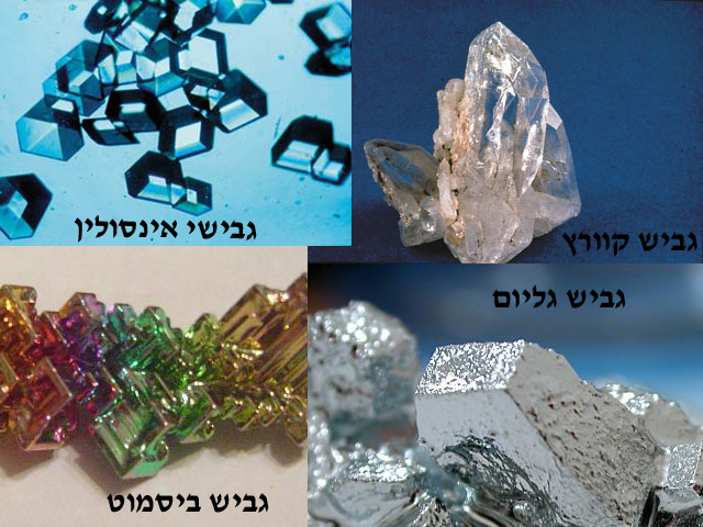 I created. taken from image:Gallium1 640x480.jpg+Image:Insulincrystals.jpg+Image:Bismuth crystal macro.jpg+Image:Quartz Crystal.jpg